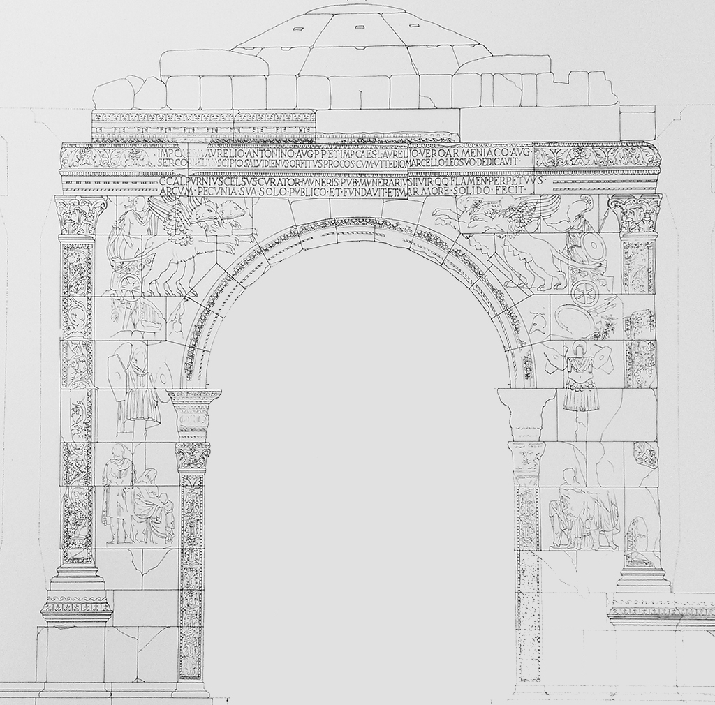 An archeological drawing of the Arch of Marcus Aurelius in Tripoli, Libya. North facade.